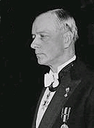 The Finnish author, translator and literary scholar Emil Zilliacus (1878-1961)